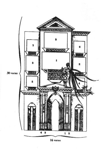 Neptuno alegórico